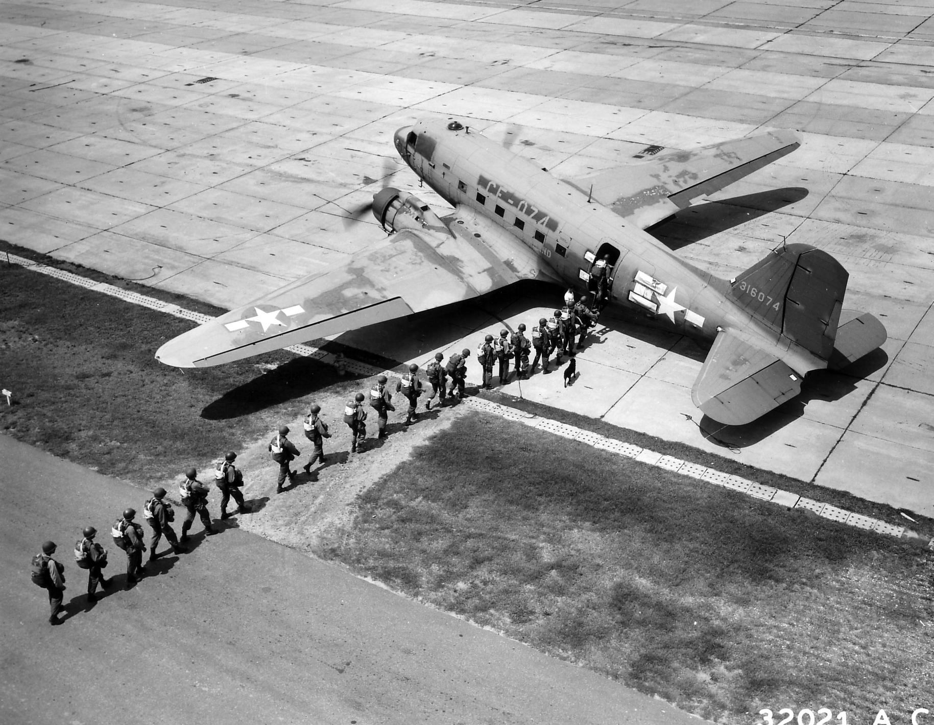 1940's -- A.C.-Lawson Field, Ft. Benning, Ga. August 1946. At the command of their jump leader, these twenty-one students of the Airborne School climb aboard a waiting Douglas C-47 of the 75th Troop Carrier Squadron which will take them up for a practice jump. After losing its cargo the plane will return quickly and pick up another load of jumpers without waiting long enough to turn off its motors. (U.S. Air Force photo)